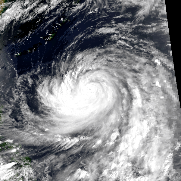 Typhoon Robyn known to the Philippines as typhoon Openg shortly after peak intensity on August 7th.